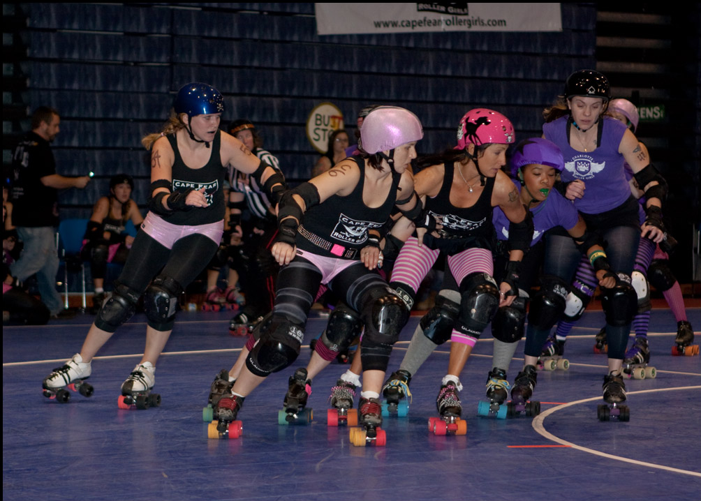 A jammer with the Charlotte (NC) Roller Girls (with the star on her helmet) attempts to maneuver through several Cape Fear (also of North Carolina) Rollergirl blockers.